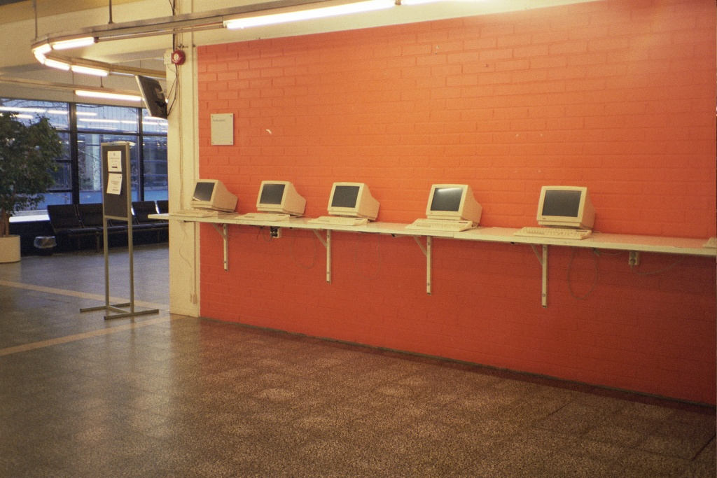 Computers terminals at the Linnanmaa campus of the University of Oulu in Finland. All of them are probably Digital VT510s. DEC's VT terminals used to be a common sight in the corridors of the university, where they were mostly used for reading email, but they (including the particular terminals seen in the photo) have since largely disappeared.